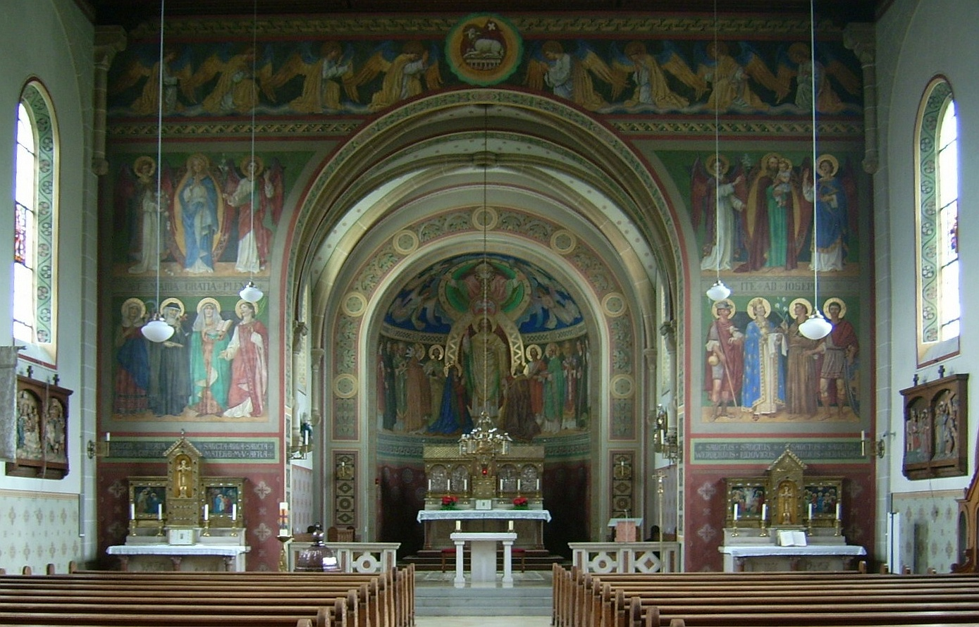 Blaichach, internal view of St Martin's Parish Church facing east.